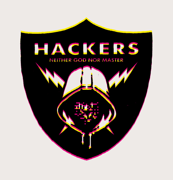 Originally a t-shirt for Sixpack with a human face, design made after the NFL Raiders logo. The phrase “Neither God nor master “ was first used by french socialist Louis Auguste Blanqui in 1879, when he published a journal by that name. It became a famous anarchist slogan.